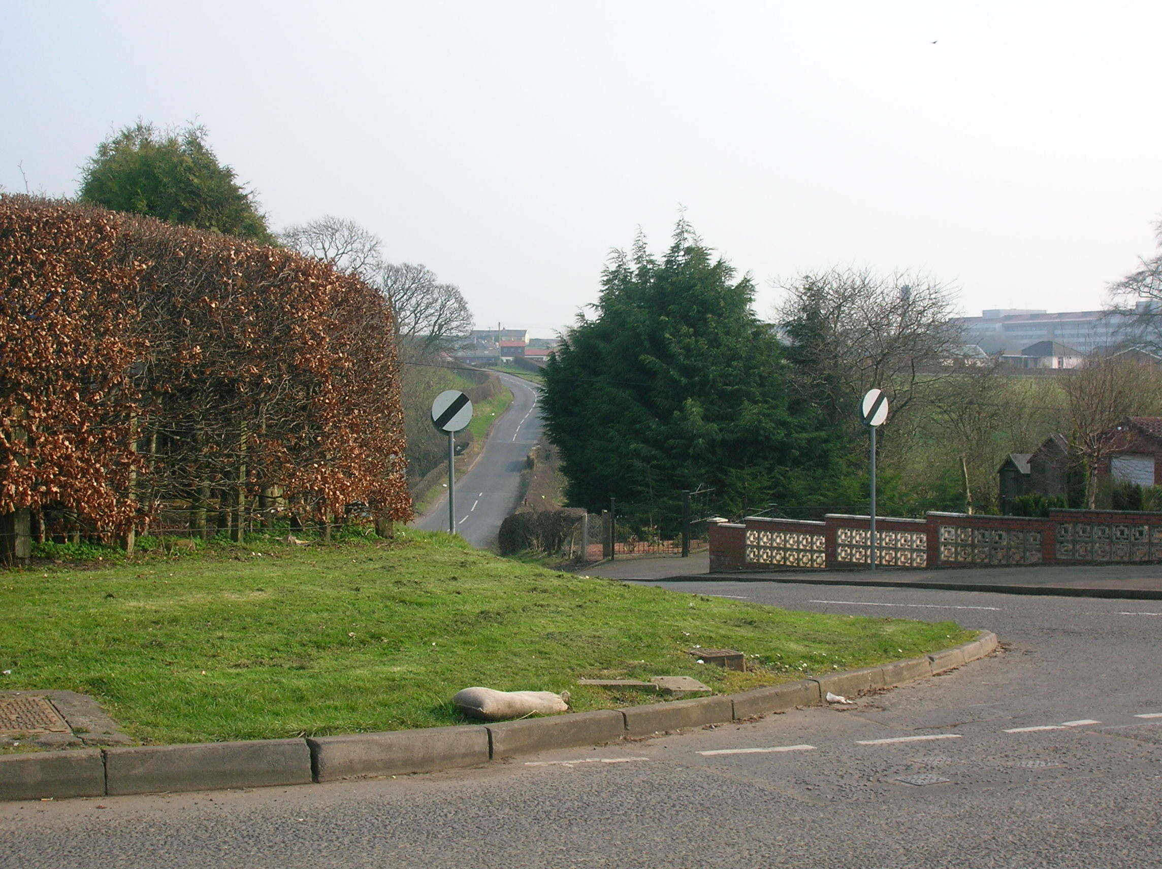 The road to Kilmarnock from Knockentiber via Fardalehill. North Ayrshire. Scotland.